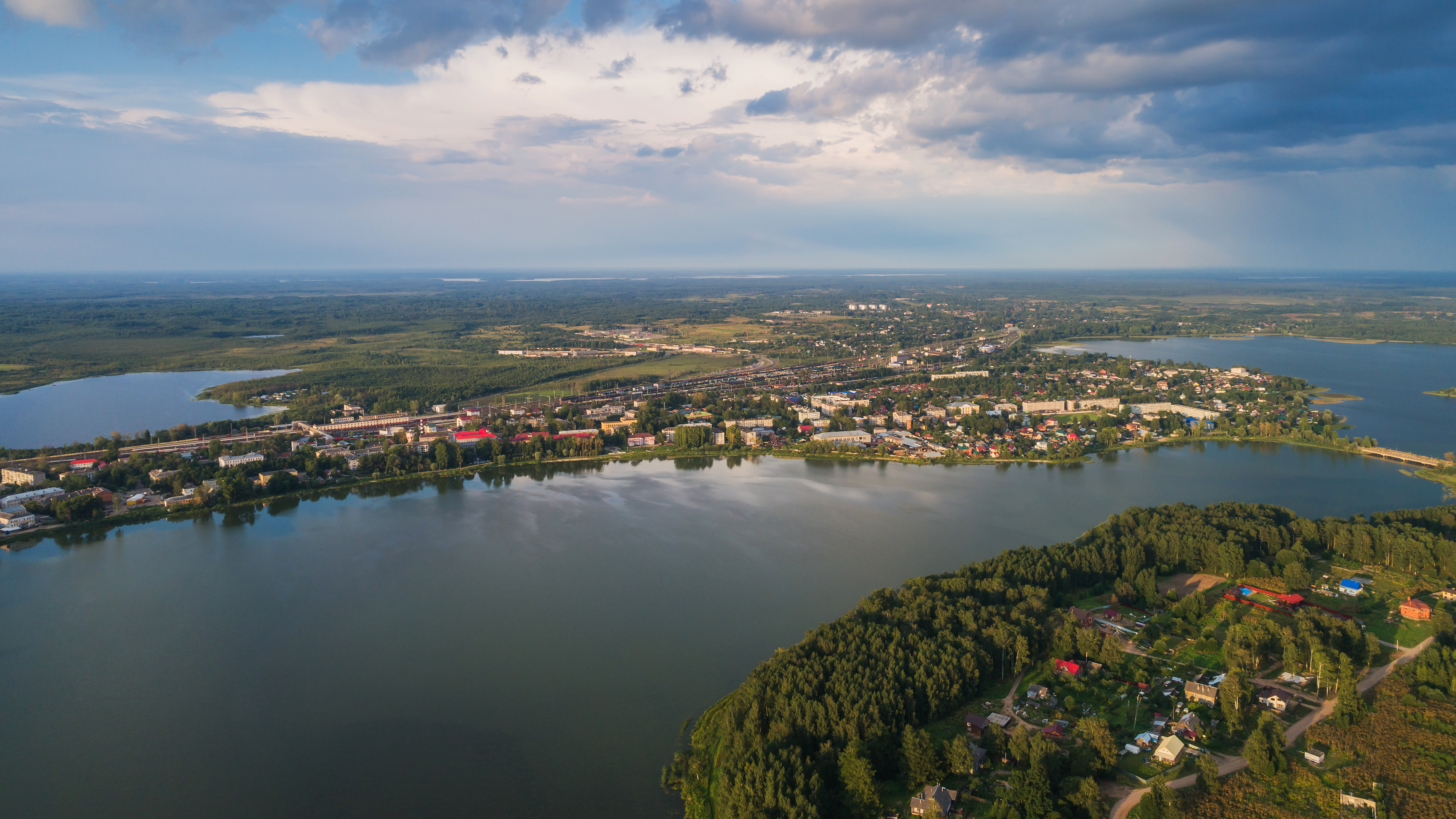 Aerial view of Bologoe, Tver Oblast, Russia.